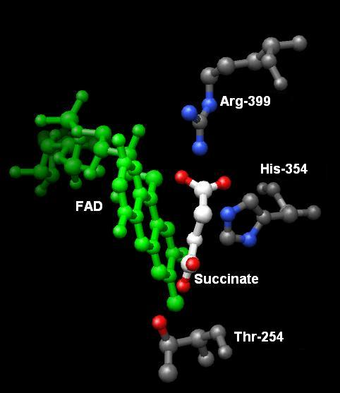 SdhA provides the binding site for the oxidation of succinate. The side chains Thr254, His354, and Arg399 stabilize the molecule while FAD oxidizes and carries the electrons to the first of the iron-sulfur clusters, [2Fe-2S]. The side chains are shown in gray with the nitrogens in blue and oxygens in red. The succinate molecule is shown in white and is oxidized by the green FAD structure.